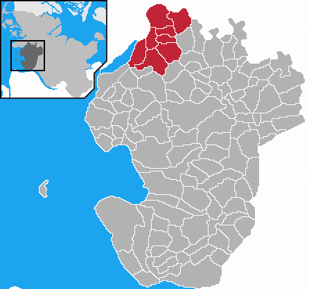 This map shows the area of the Amt Lunden in the district Dithmarschen, Schleswig-Holstein, Germany.